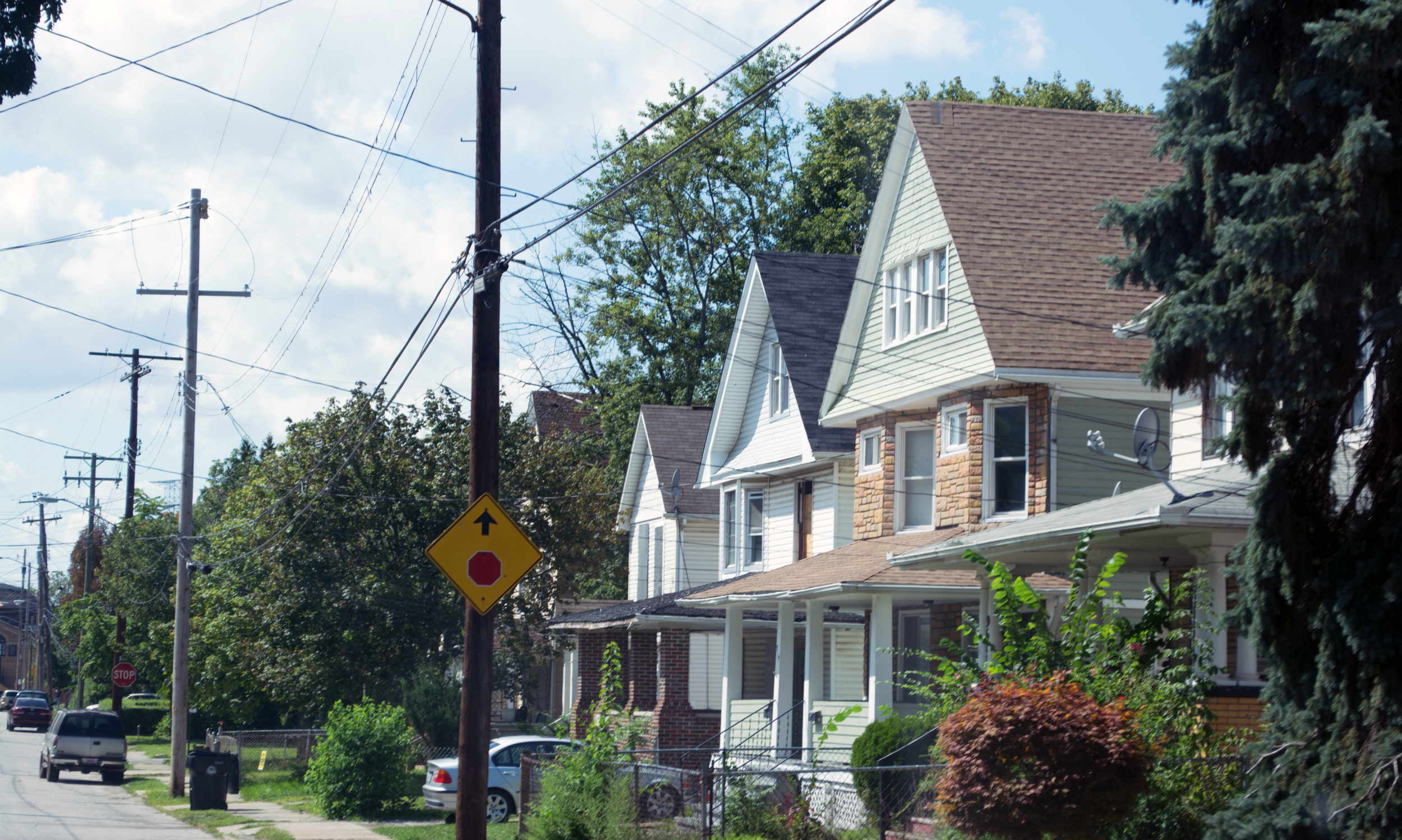 Houses at E. 97th Street and Pratt Avenue in the Union-Miles Park neighborhood of Cleveland, Ohio, in the United States.